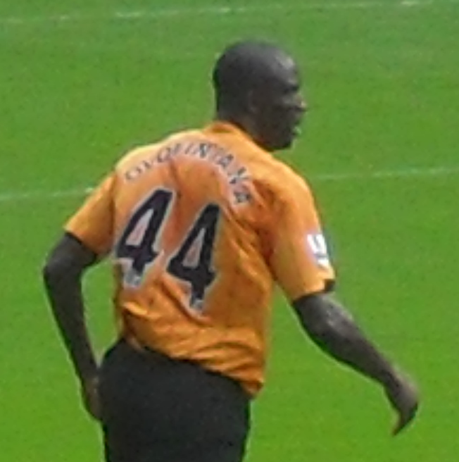 Seyi Olofinjana